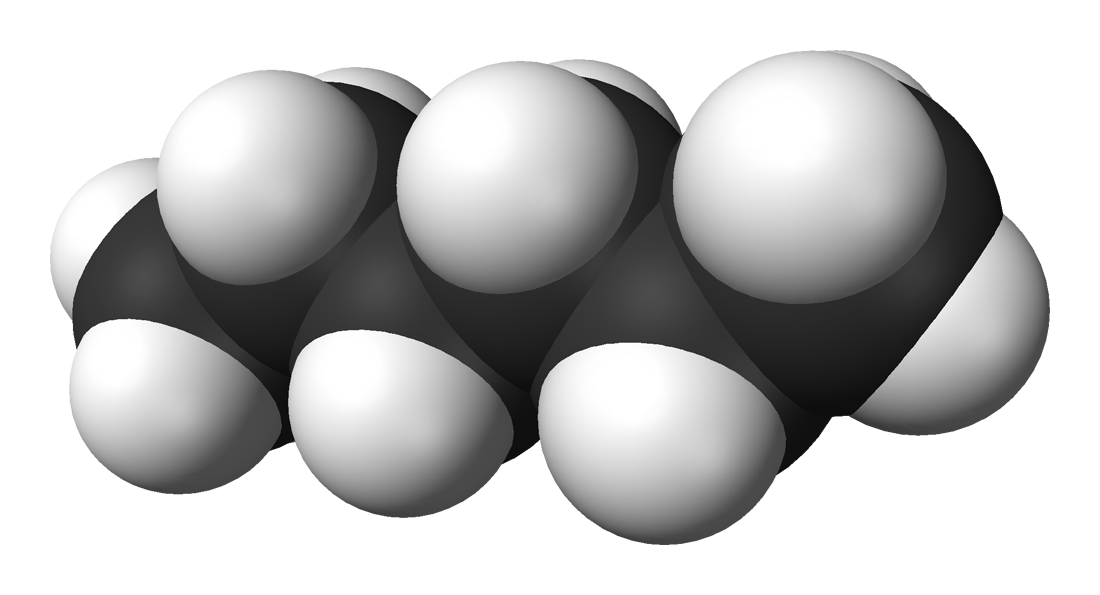 Space-filling model of the hexane molecule